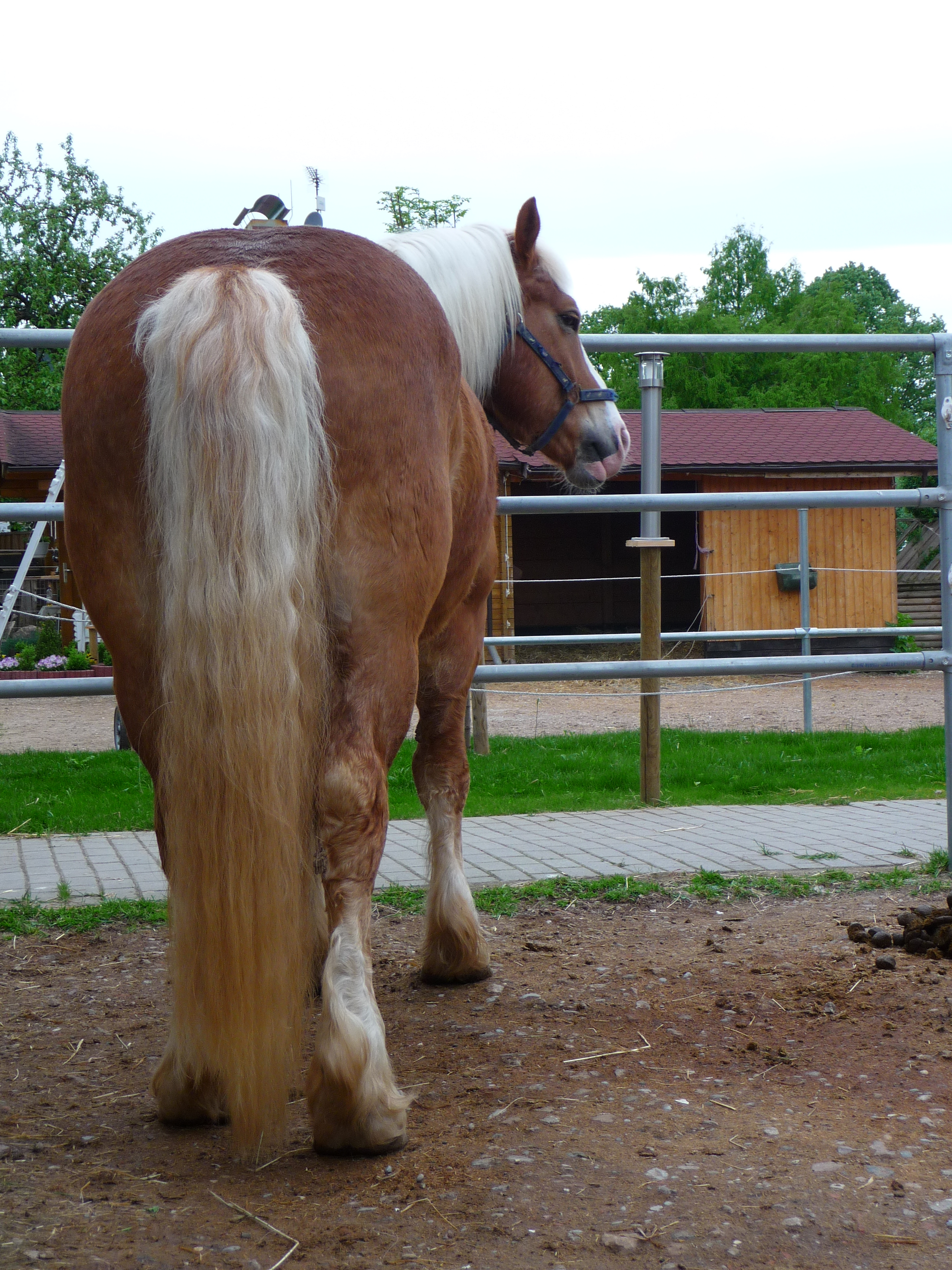 partbred Black Forest Horse